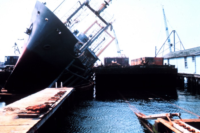 National Oceanic and Atmopsheric Administration fisheries research vessel NOAAS Delaware II (R 445) suffers a drydock mishap